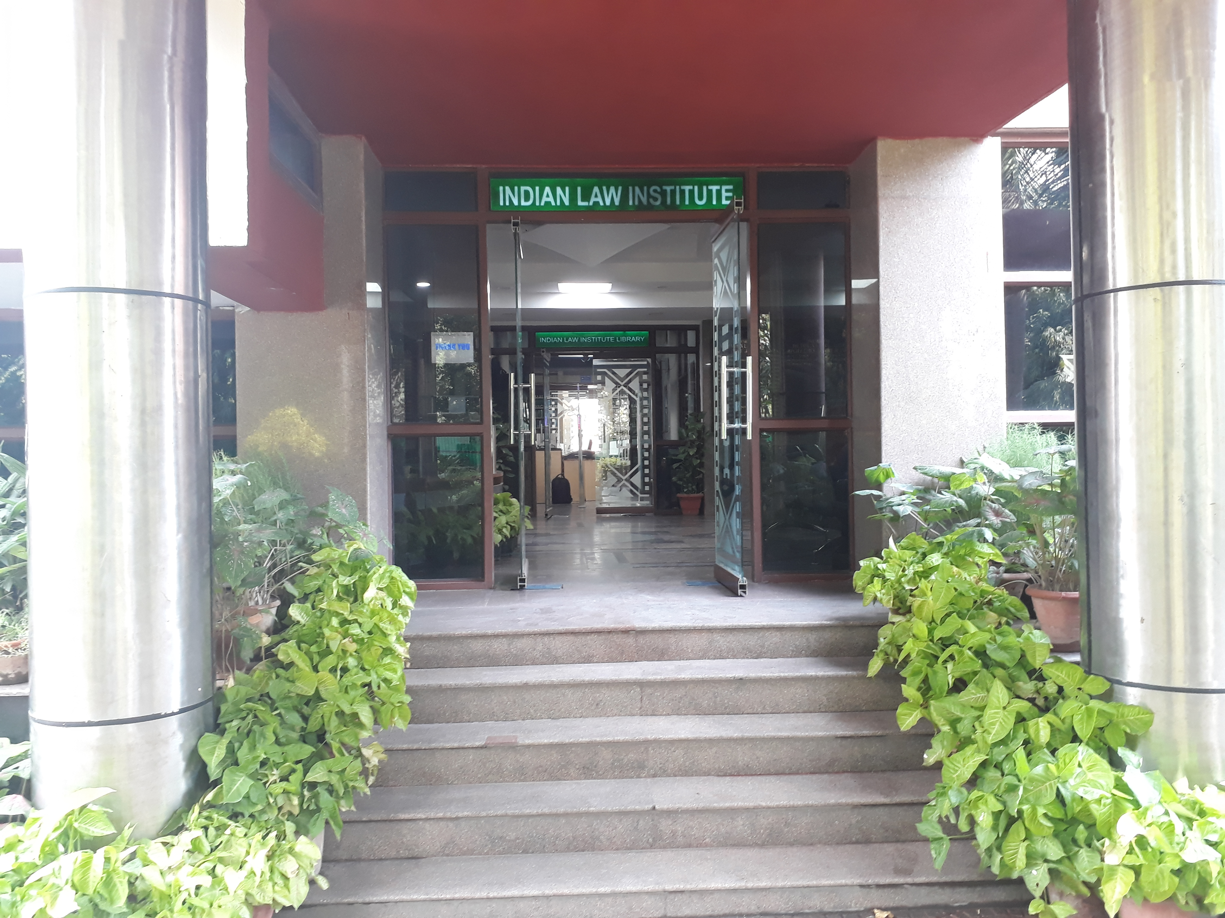 Main gate of Indian Law Institute (ILI), New Delhi